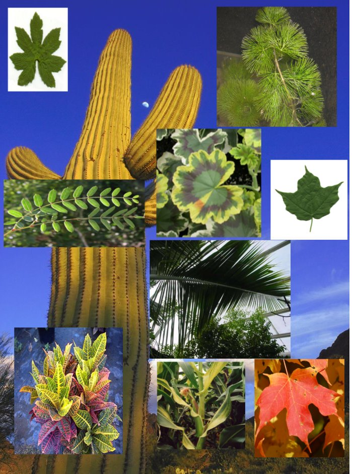 The diversity of leaves.